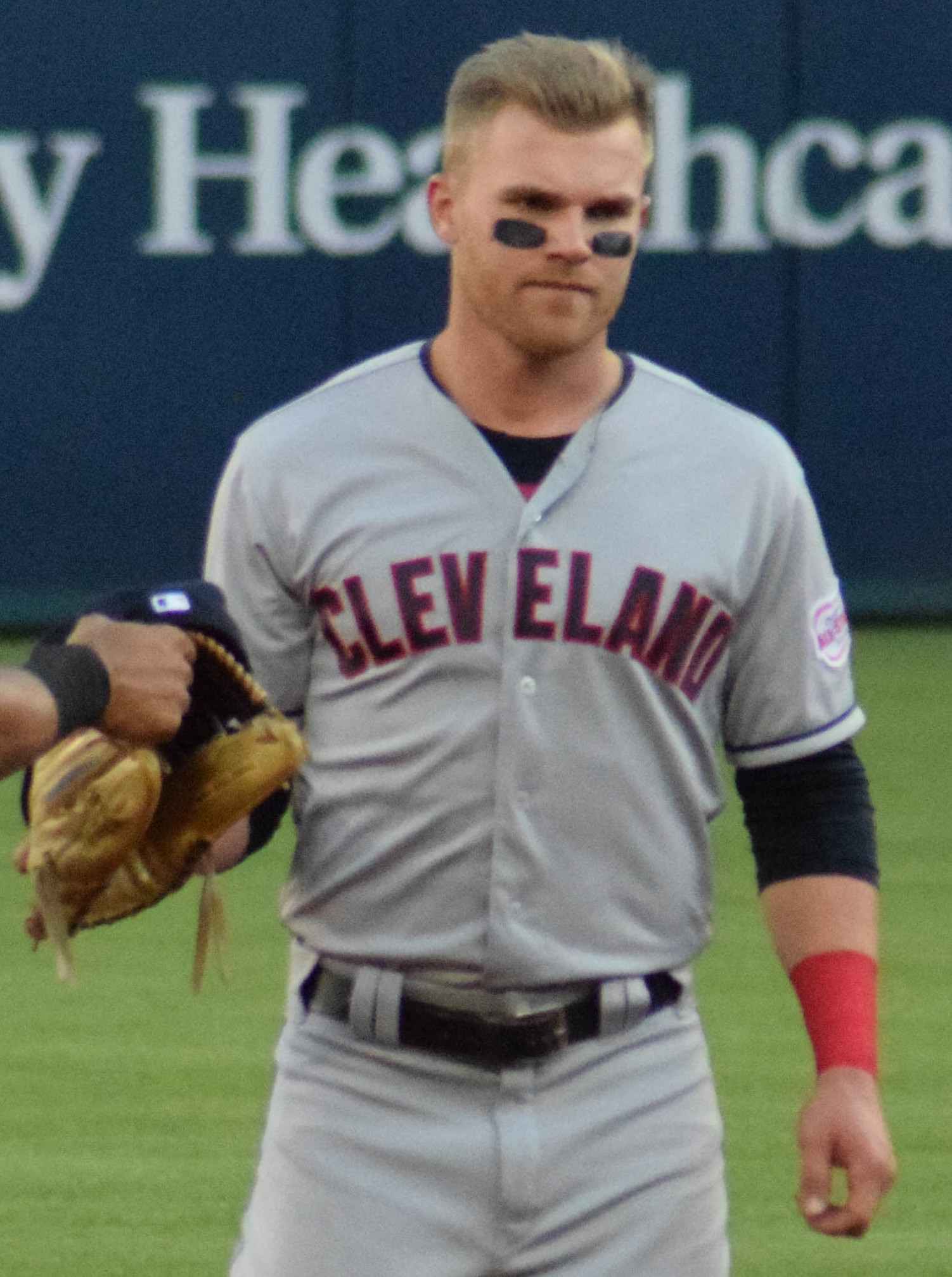 Oscar Mercado and Jake Bauers with the Cleveland Indians at Globe Life Park in Arlington in 2019